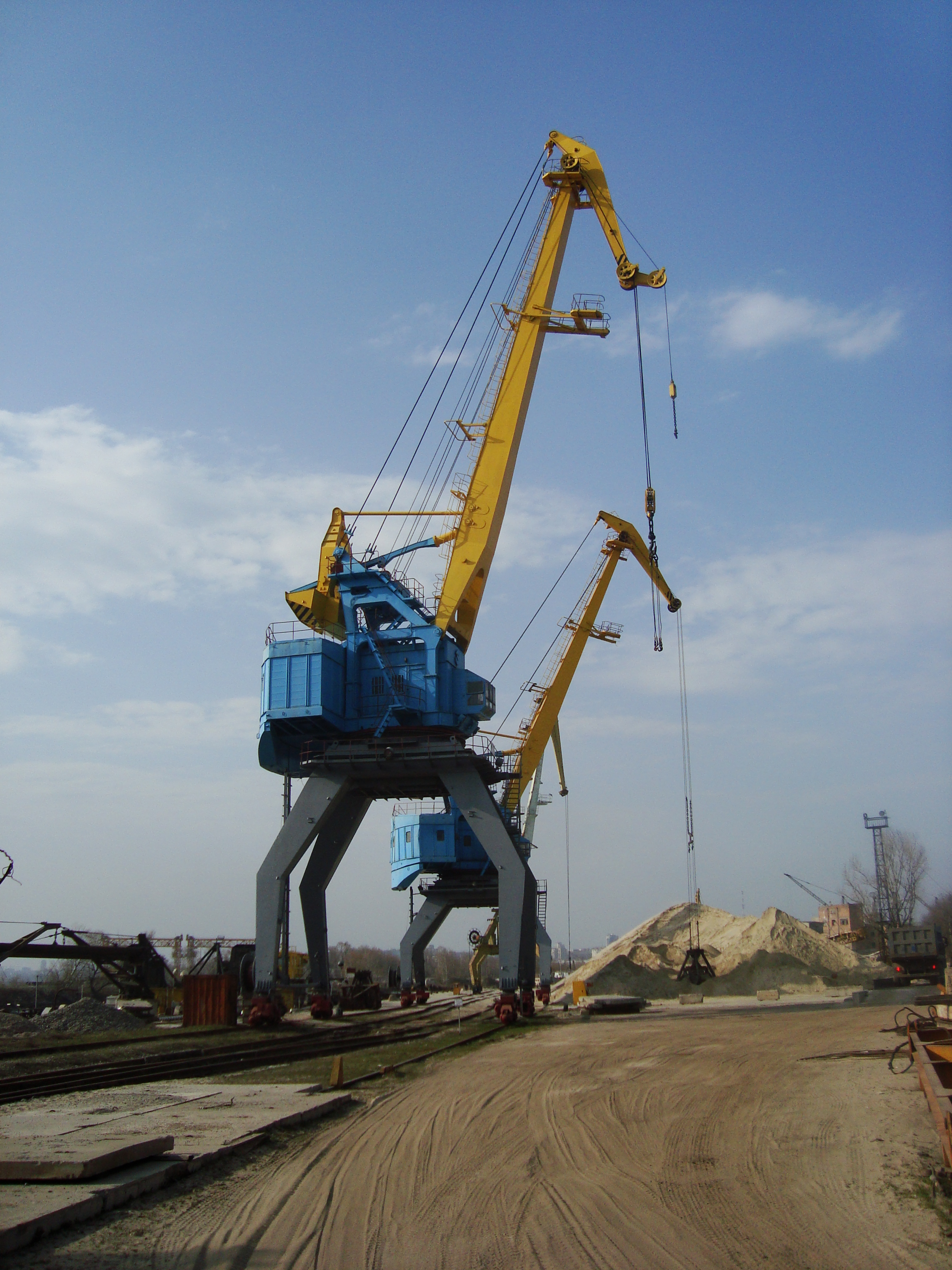 Level luffing crane